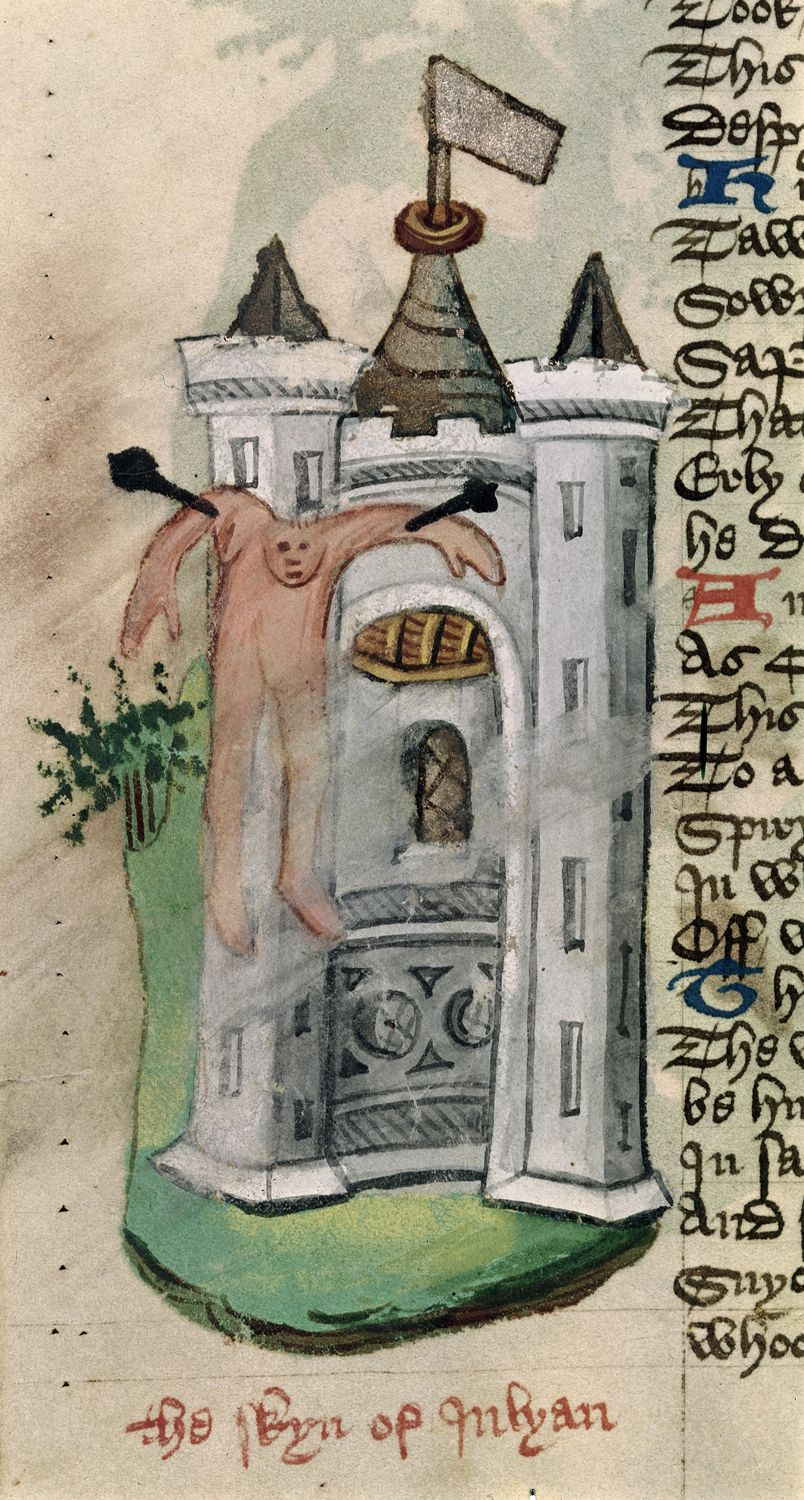 Illustration from the "The Fall of Princes" by Giovanni Boccaccio, depicting the skin of Roman Emperor Flavius Claudius Julianus